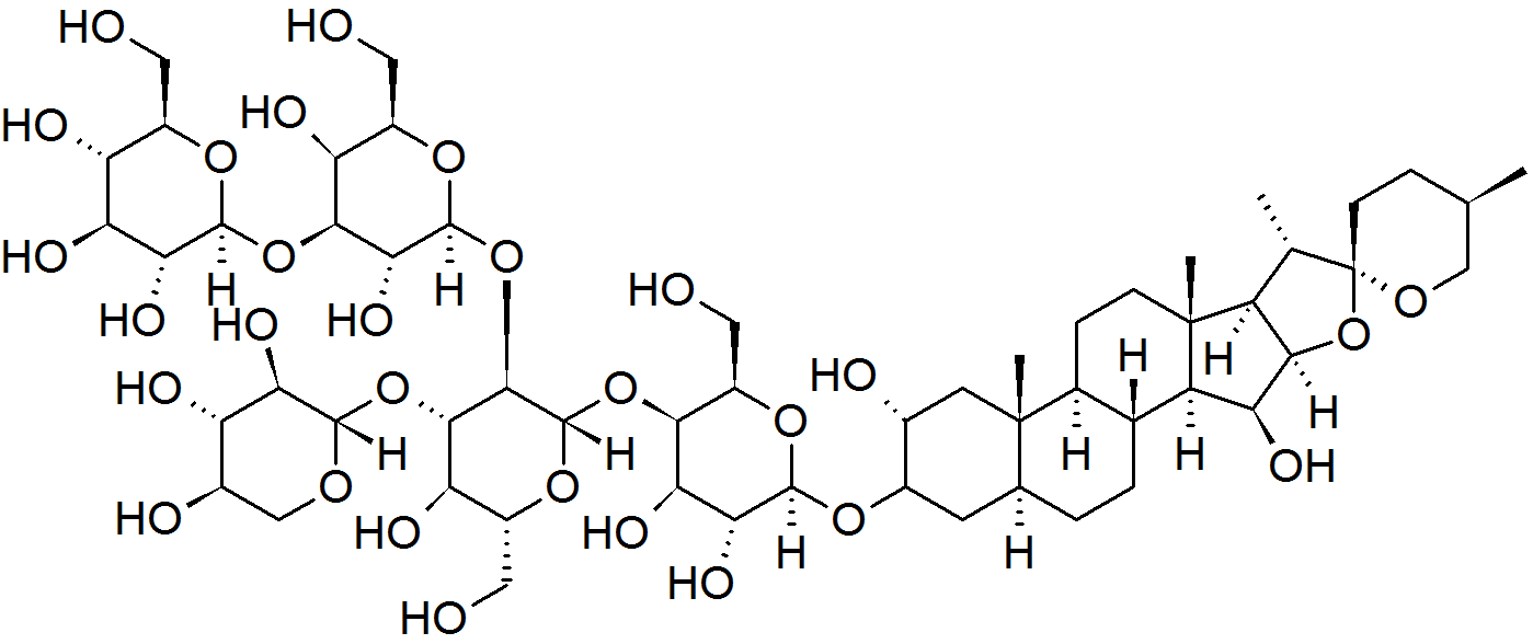 The structure of digitonin as verified at CAS Common Chemistry.